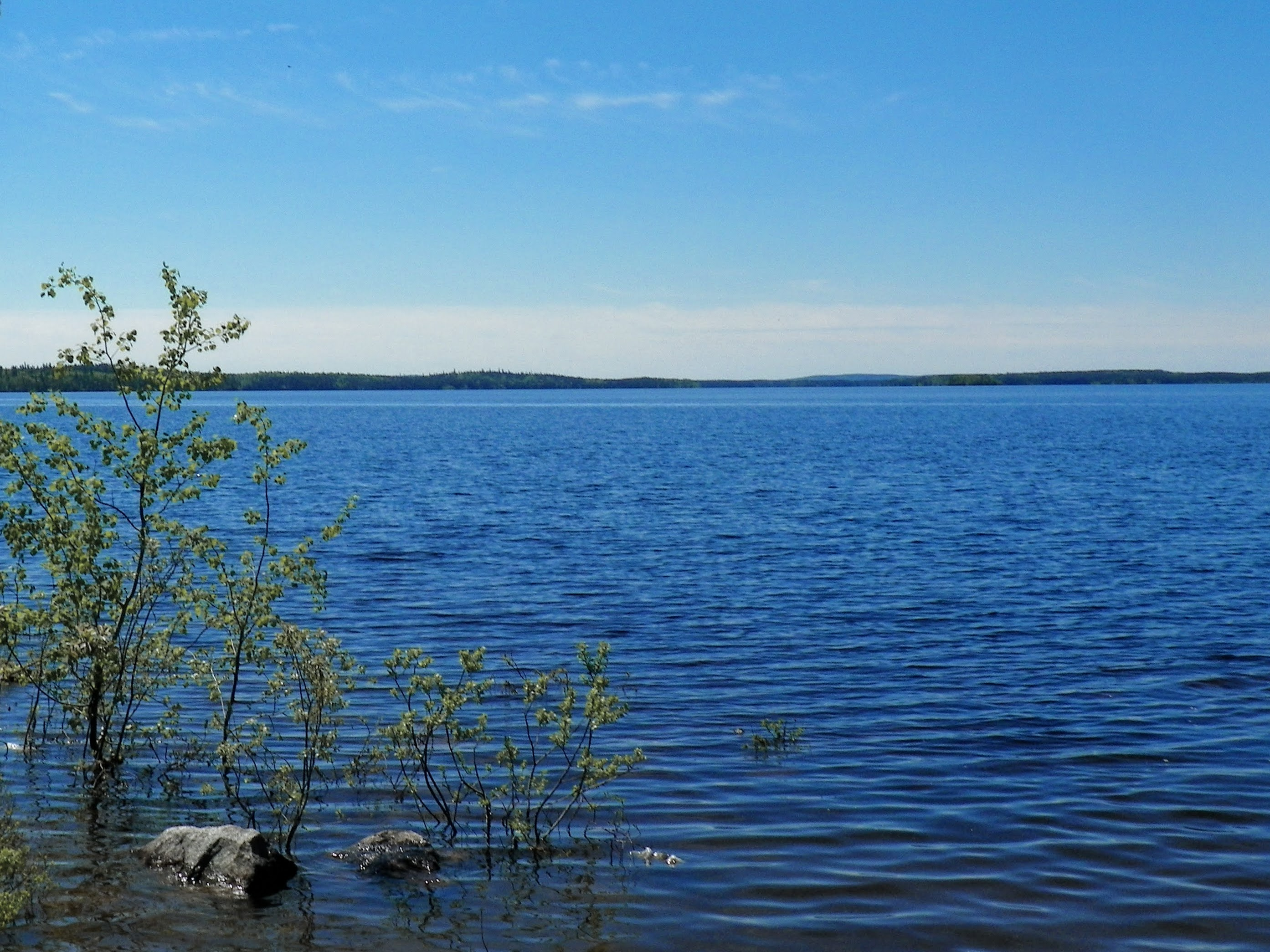 Gouin reservoir in Obedjiwan, view towards Village island.